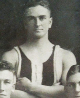 Photograph of George Beasley from 1924-1928